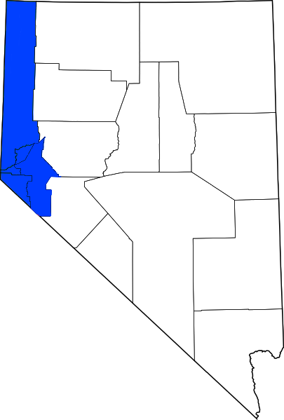 Highlighted map of